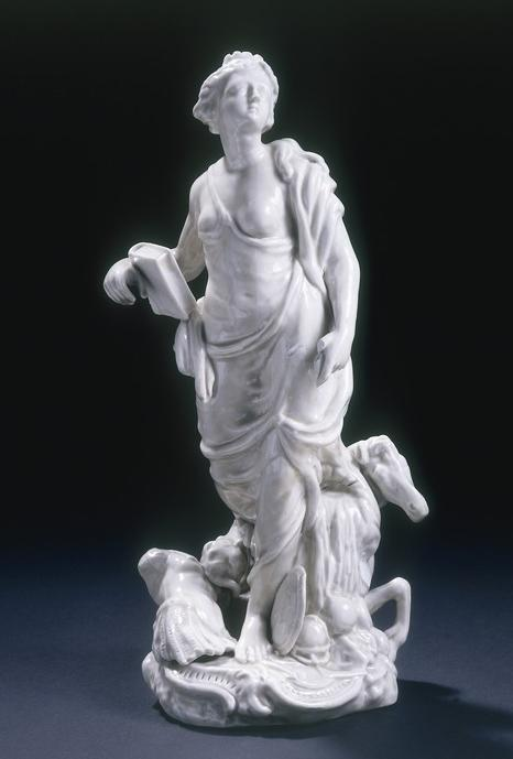 Europe, about 1770 V&A Museum no. 3088-1901 Techniques - Hard-paste porcelain Artist/designer - Plymouth Porcelain Factory Place - Devon, England Dimensions - Height 32.7 cm, Width 13.4 cm Object Type - The figure is emblematic of Europe. It is a purely decorative piece from a set representing the Four Continents. Each of the figures is frontally posed, and the backs are poorly finished, so they were probably intended to be set against a wall. They may have been displayed set out on a chimneypiece or other domestic furnishing. People - The Four Continent set of figures was first made by the Nicholas Crisp (born about 1704; died 1774) and John Saunders partnership at Vauxhall in London. The modeller has not been identified. However, the Neo-classical sculptor John Bacon the Elder (1740-1799) was apprenticed to Crisp, and is said to have modelled for the factory. On the other hand, Crisp also employed a modeller and mould-maker named Hammersley, who later worked at Plymouth, where this figure was made. Even if he did not model the figure, Hammersley may have made the moulds in which they were cast, and he presumably took the moulds or casting models from London to Plymouth. The Plymouth factory was founded by William Cookworthy (1705-1780), an apothecary. Cookworthy had discovered the raw materials required for 'true' or hard-paste porcelain when prospecting in Cornwall in the 1740s, but he did not succeed in manufacturing it on a commercial scale until 1768.